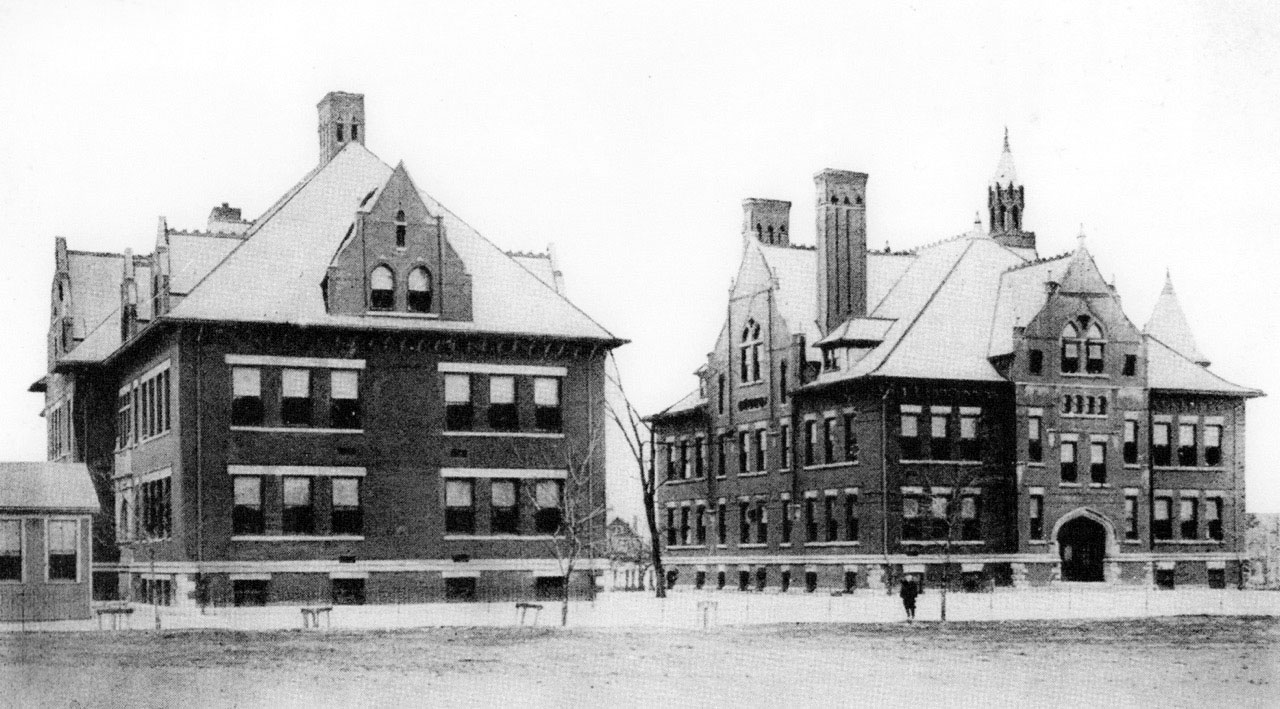 The first Norwood High School in Norwood, Ohio (right) was located at Allison Street and Courtland Avenue next to Allison Elementary School (left) and opened in 1897. The elementary school expanded into the high school building when a new high school on Sherman Avenue opened in 1914. The old high school building on the right in this photo was destroyed in a fire in 1917, but the elementary school building on the left still exists.